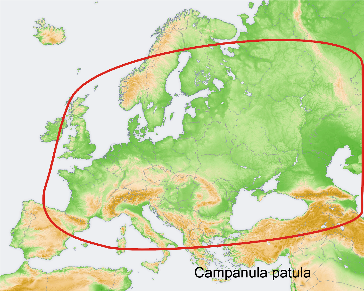 Distribution map of some species of genus Campanula in Europe and near east Try - according to information about the natural distribution given in the wikipedia articles (en, de, fr, ru, es).